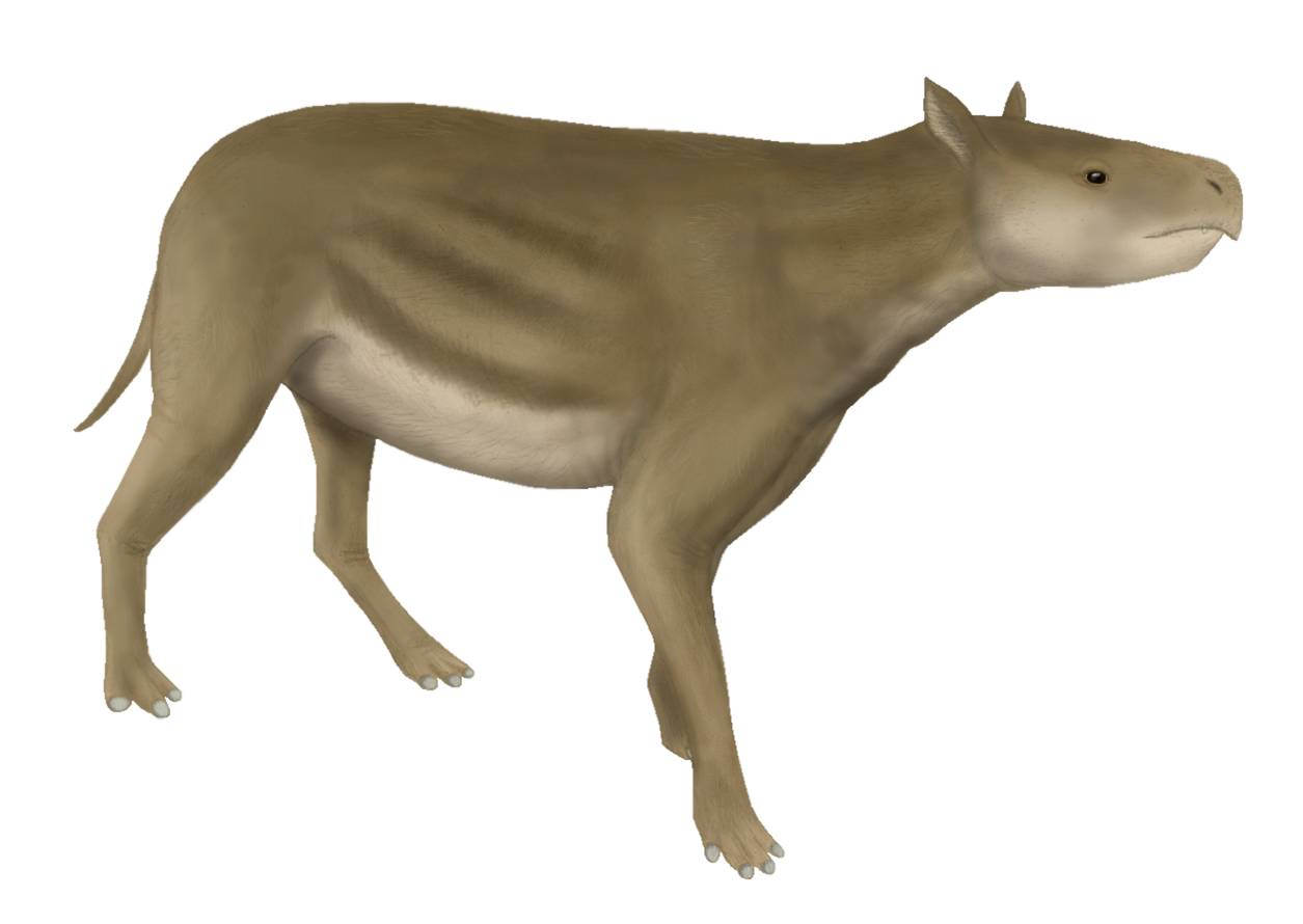 Life restoration of Heptodon posticus.